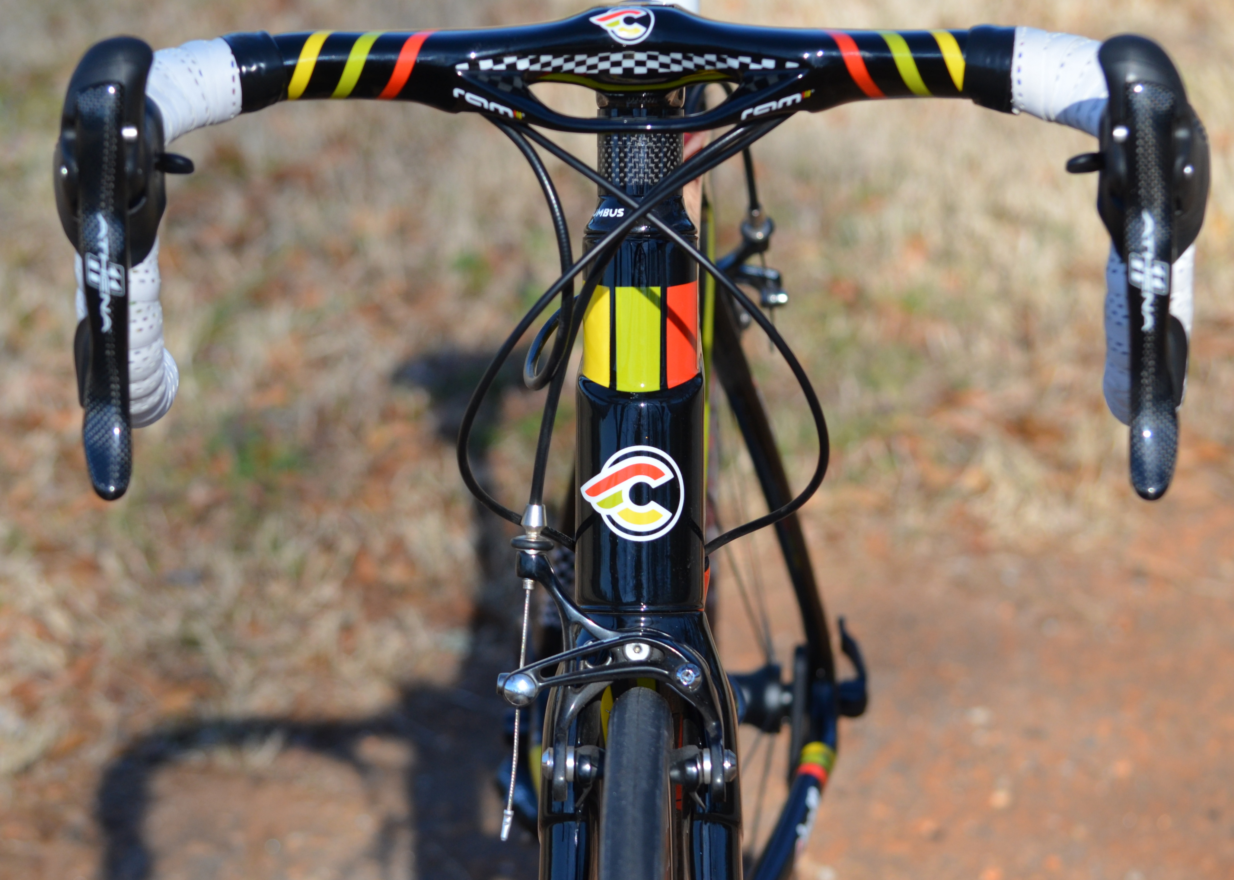 Long Lost Cinelli Photos - Very Best Of, MASH and more